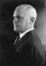 Portrait of Senator Rice W. Means of Colorado